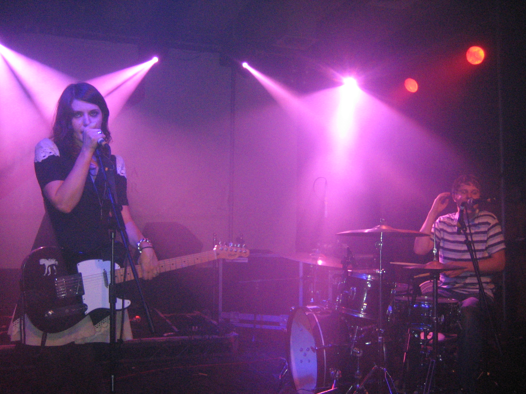 Blood Red Shoes